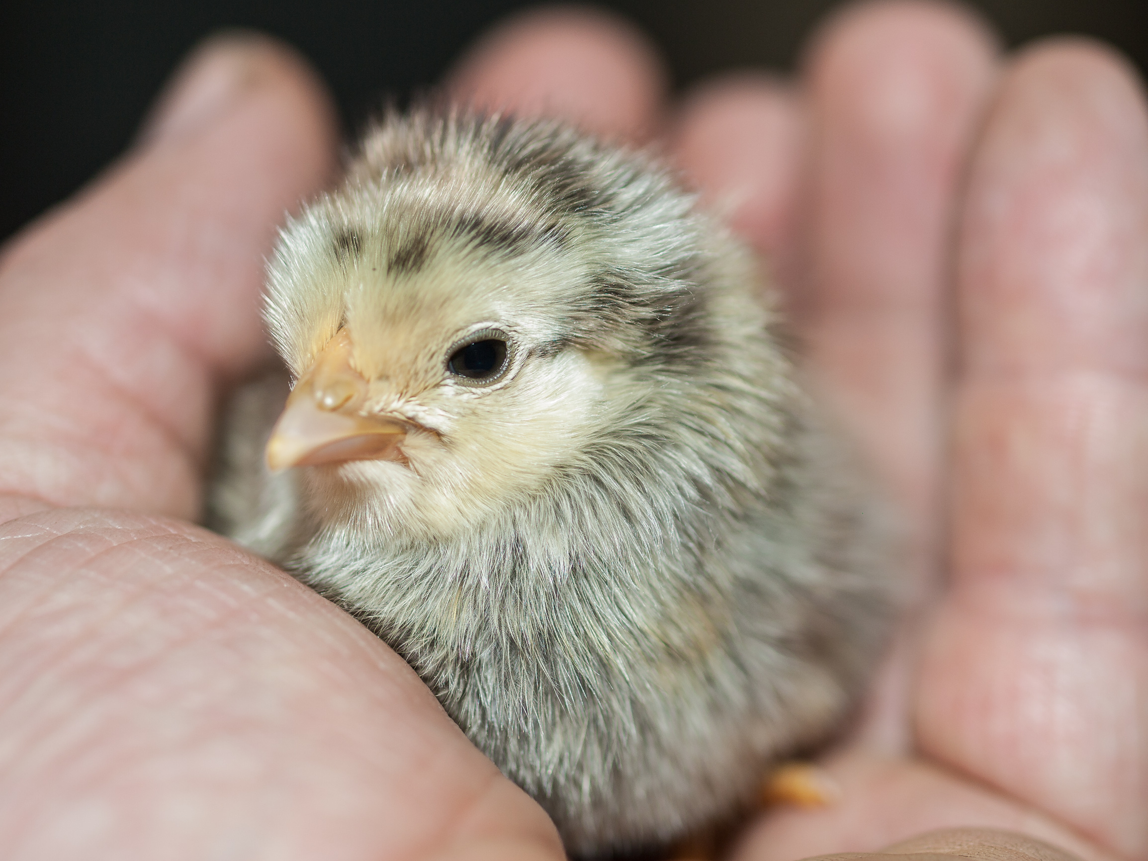 1 day old chick hatching